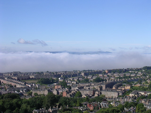 Fog in the Tay estuary. This view south from the summit of Dundee law shows a temperature inversion in the river estuary. Normally it is possible to see across the river to Fife. On this June morning cold air had crept from the sea into the river mouth (not an uncommon event especially in summer when sea haar spoils many a fine day in Dundee) and only a tiny fragment of Fife is visible above it.